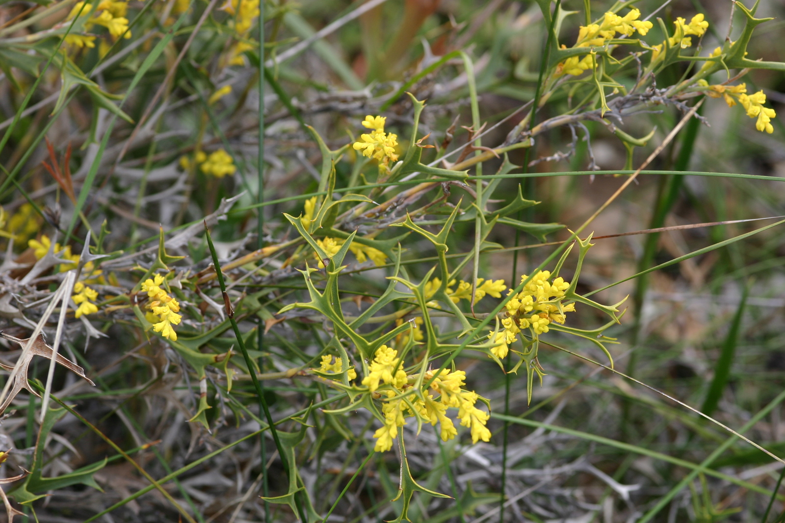 Synaphea spinulosa subsp spinulosa at Cottonwood Cr Reserve, Perth